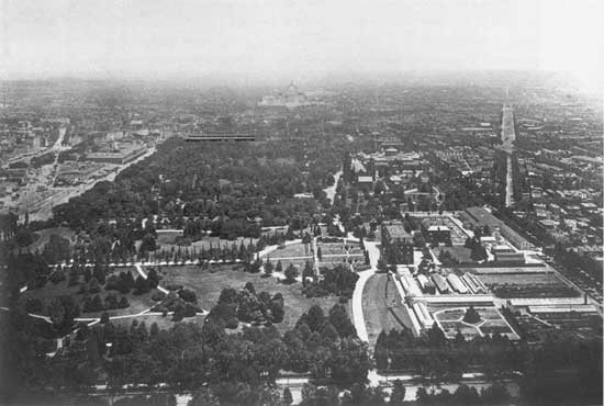 Looking east at the National Mall in Washington, D.C., in the United States in the summer of 1901. The Mall still exhibits the 1851 Victorian-era landscape design of winding paths and random plantings designed by Andrew Jackson Downing. Virginia Avenue SW extends into the distance on the right. The slum known as Murder Bay is visible on the north side of the Mall (left). The complex of buildings in the lower right is the 1868 United States Department of Agriculture building and 1870 conservatory.